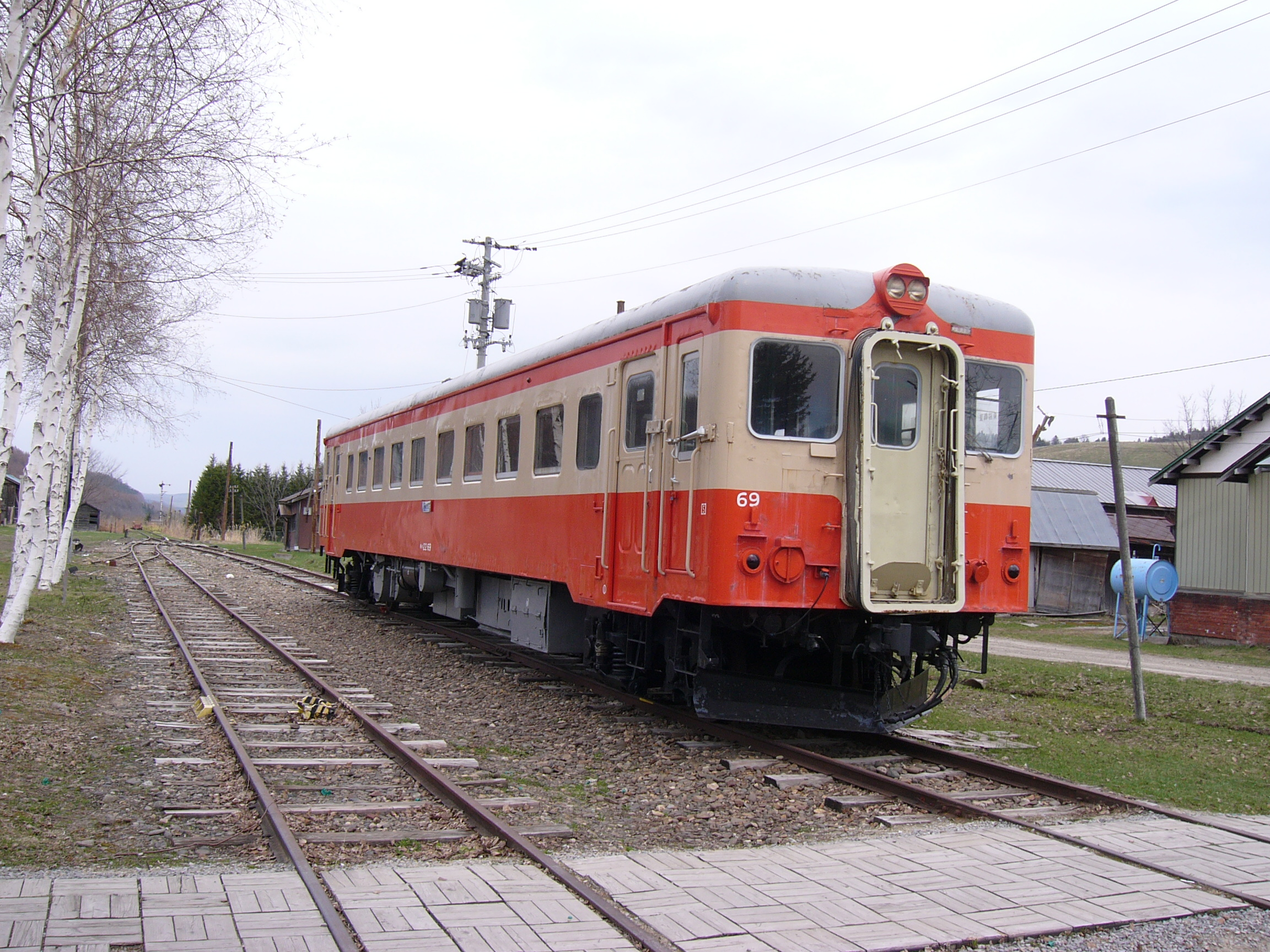 JNR KiHa 22 DMU car KiHa 22-69 preserved at the former Kitami-Aioi Station in Hokkaido, Japan